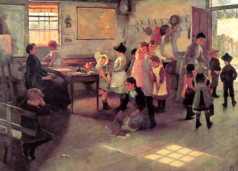 School Is Out